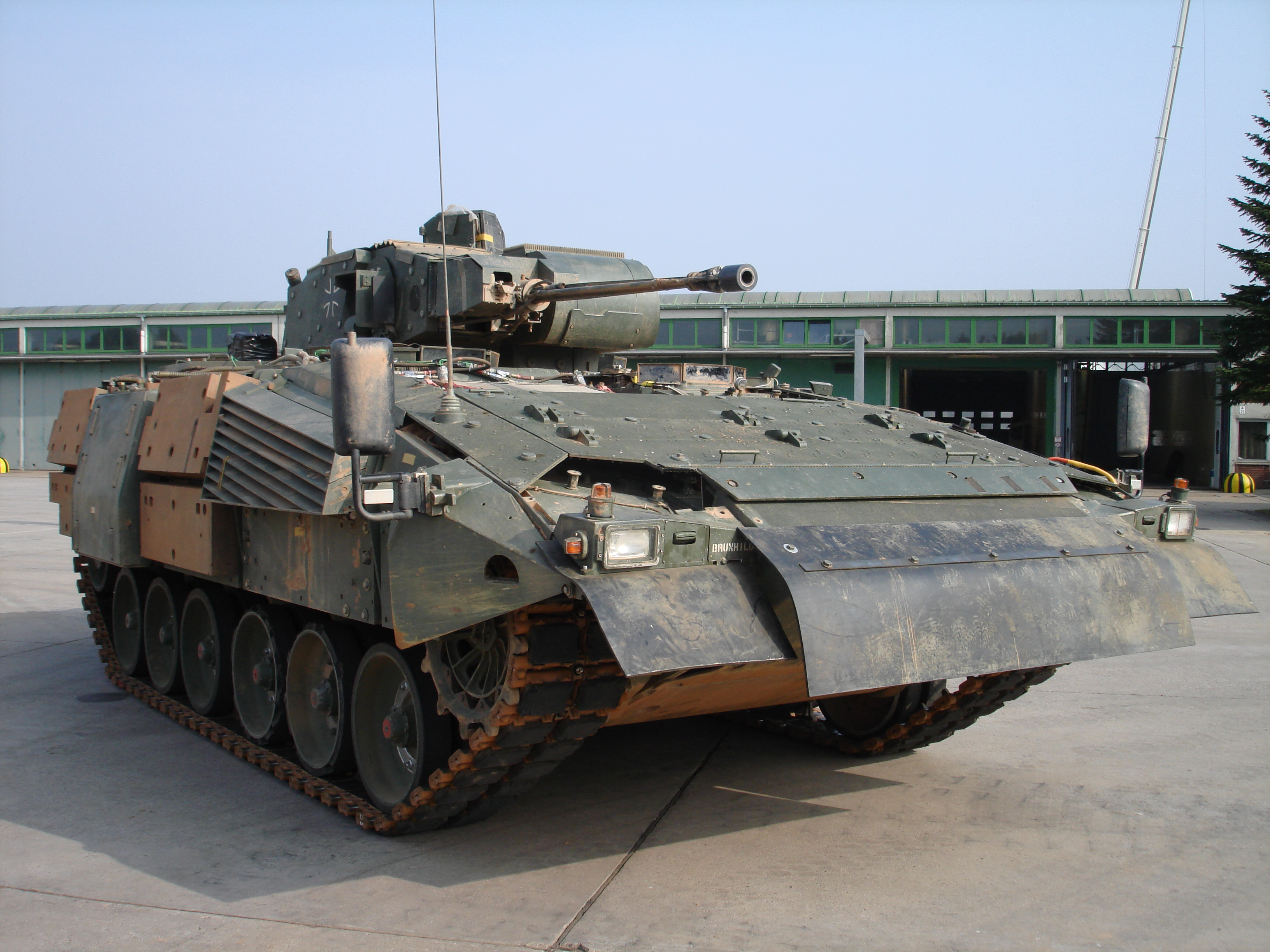 Infantry fighting vehicle Puma. Demonstrator for mobility-VS2 with weight simulators. Note the 6 wheels!